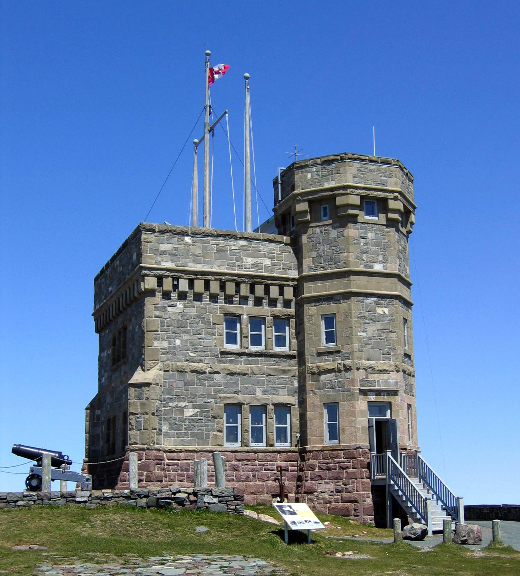 Cabot Tower in St. John's, Newfoundland 1897-1900